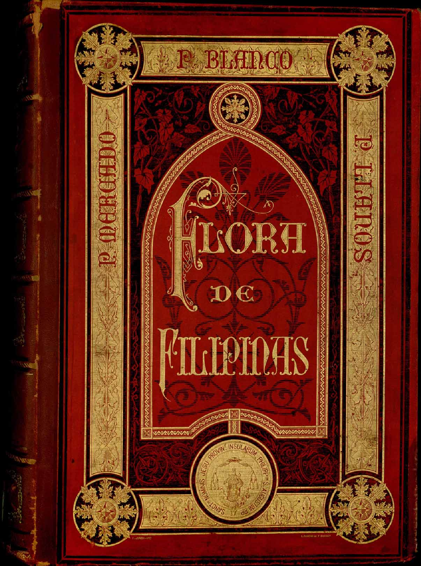 Plate from book